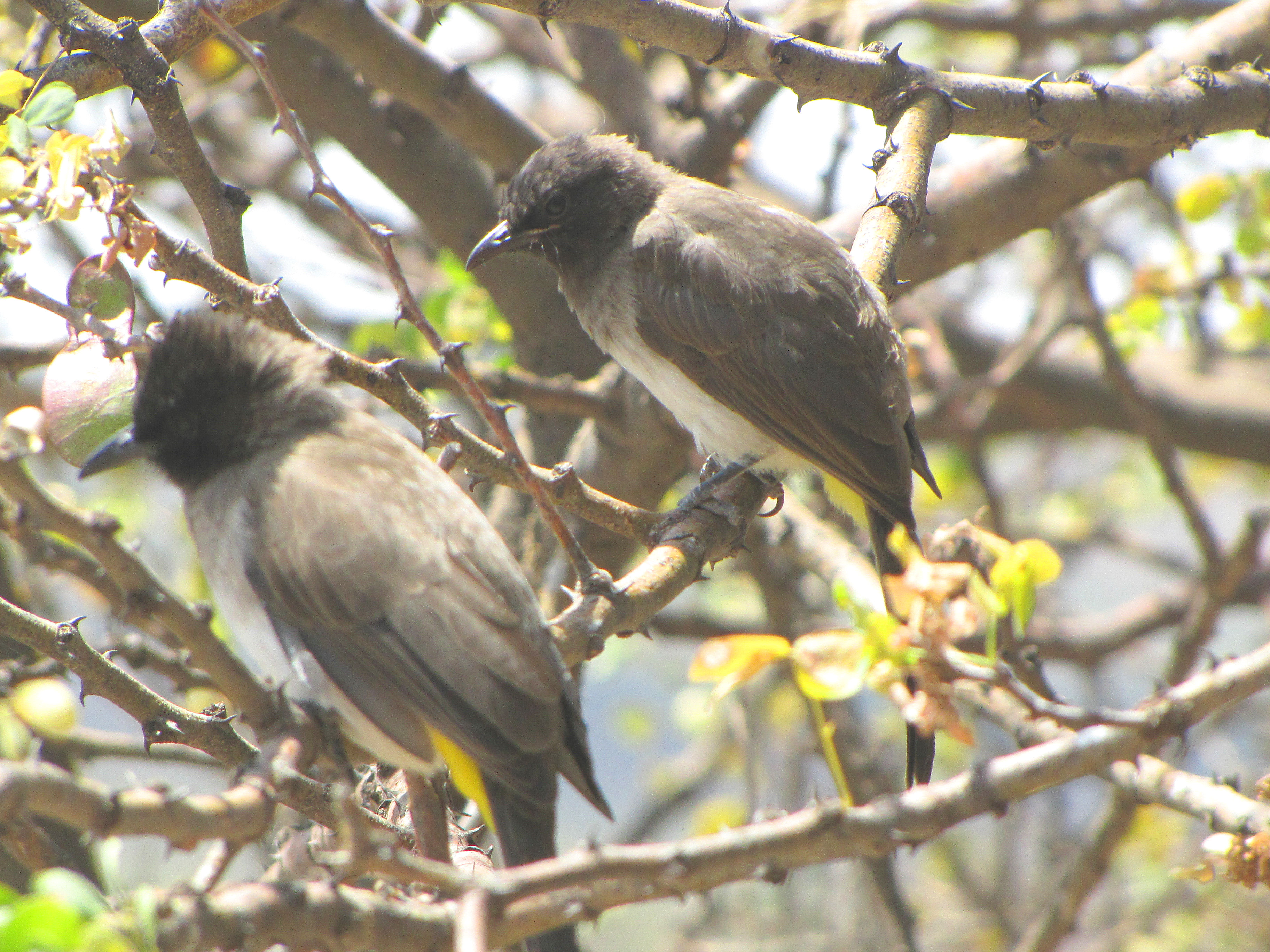 Dark-capped Bulbuls Pycnonotus tricolor, adult and juvenile, Lake Manyara Park, Tanzania